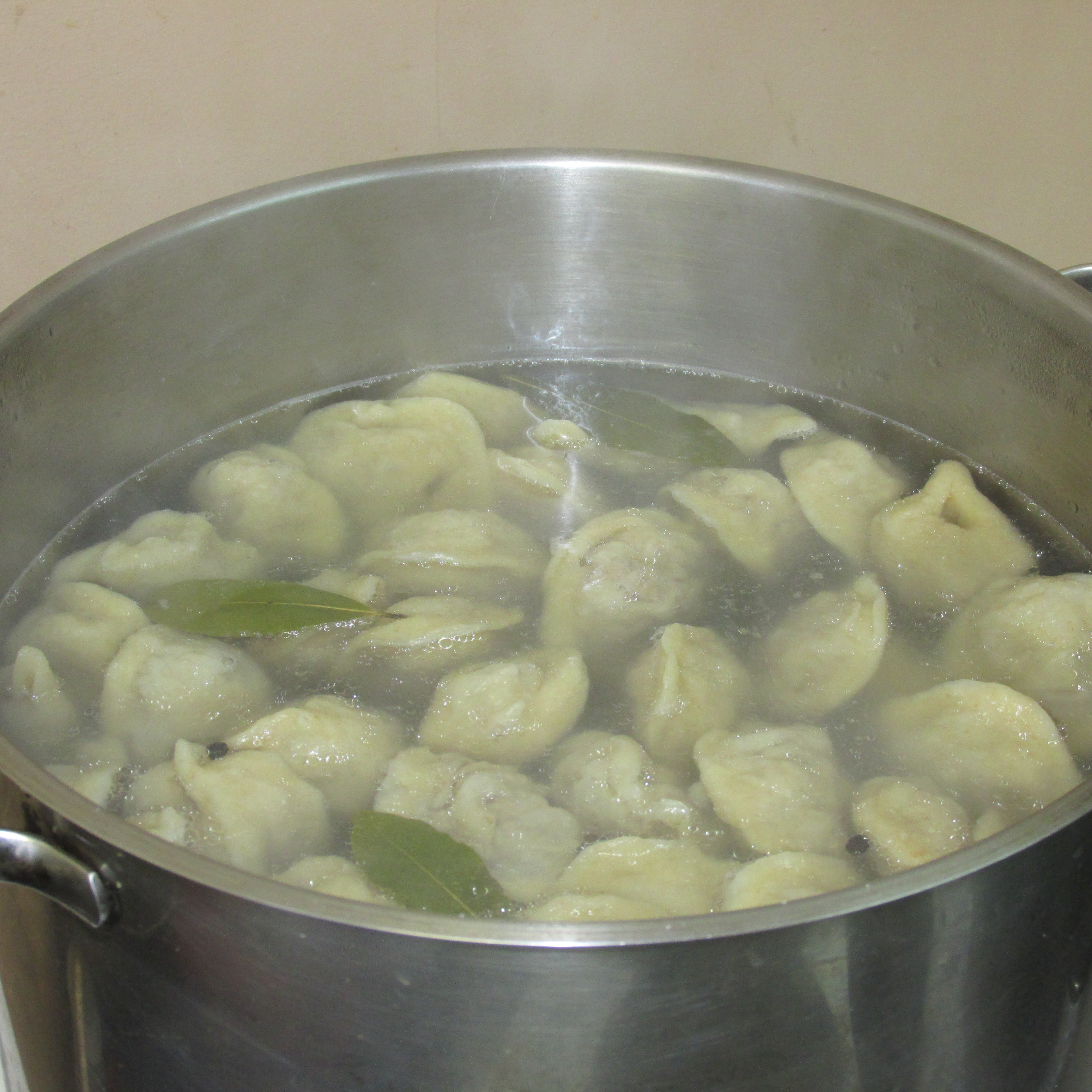 Pelmeni with meat. Master-class on the Udmurt cuisinein in the «Cultural Capital of the Finno-Ugric World in 2017». Vuokkiniemi (Voknavolok). 27 February 2017. The workshop conducts Lyudmila Ruukel.